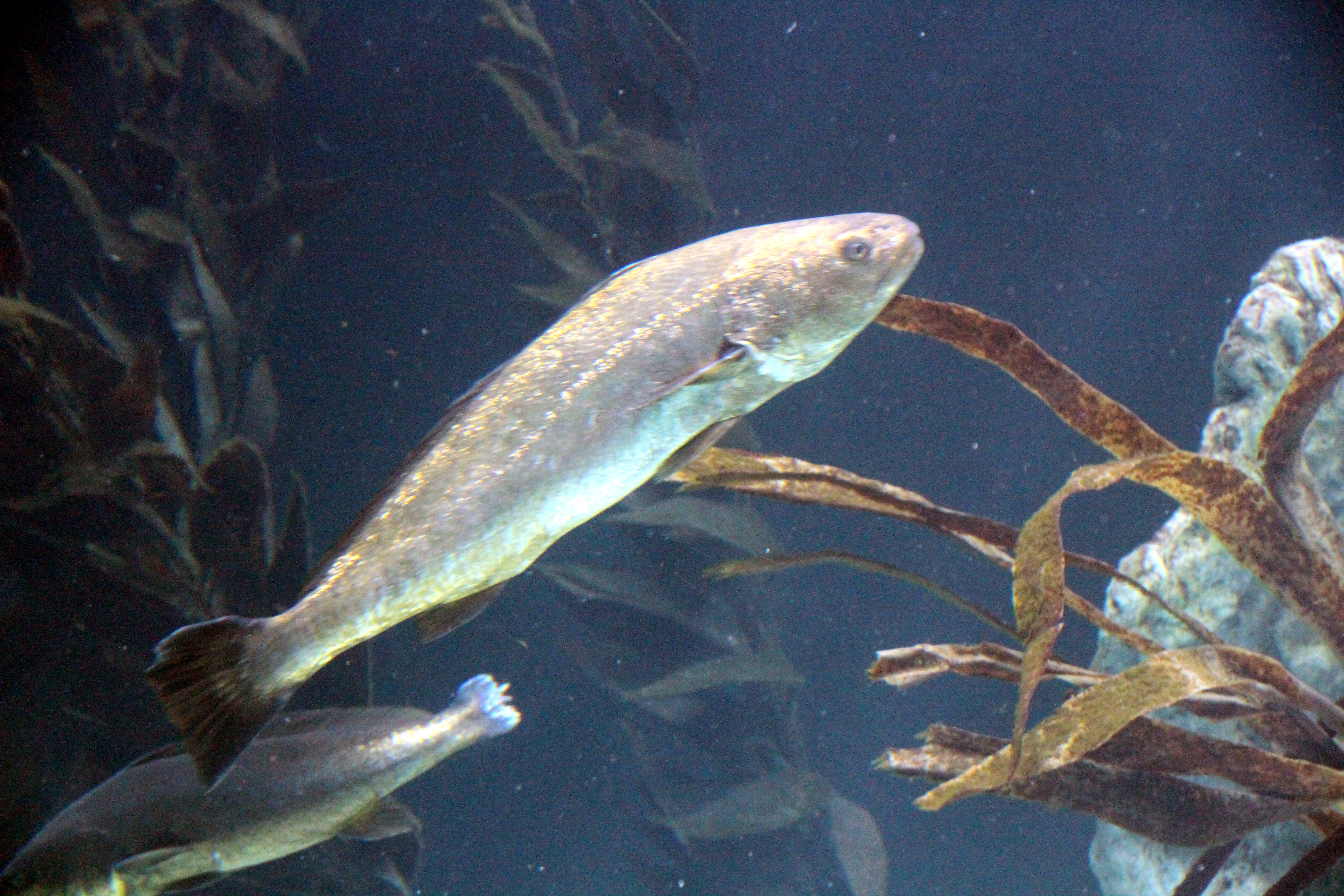 Argyrosomus regius, also known as stone basse or shadow-fish, in the Loro Parque aquarium, Tenerife, Spain.